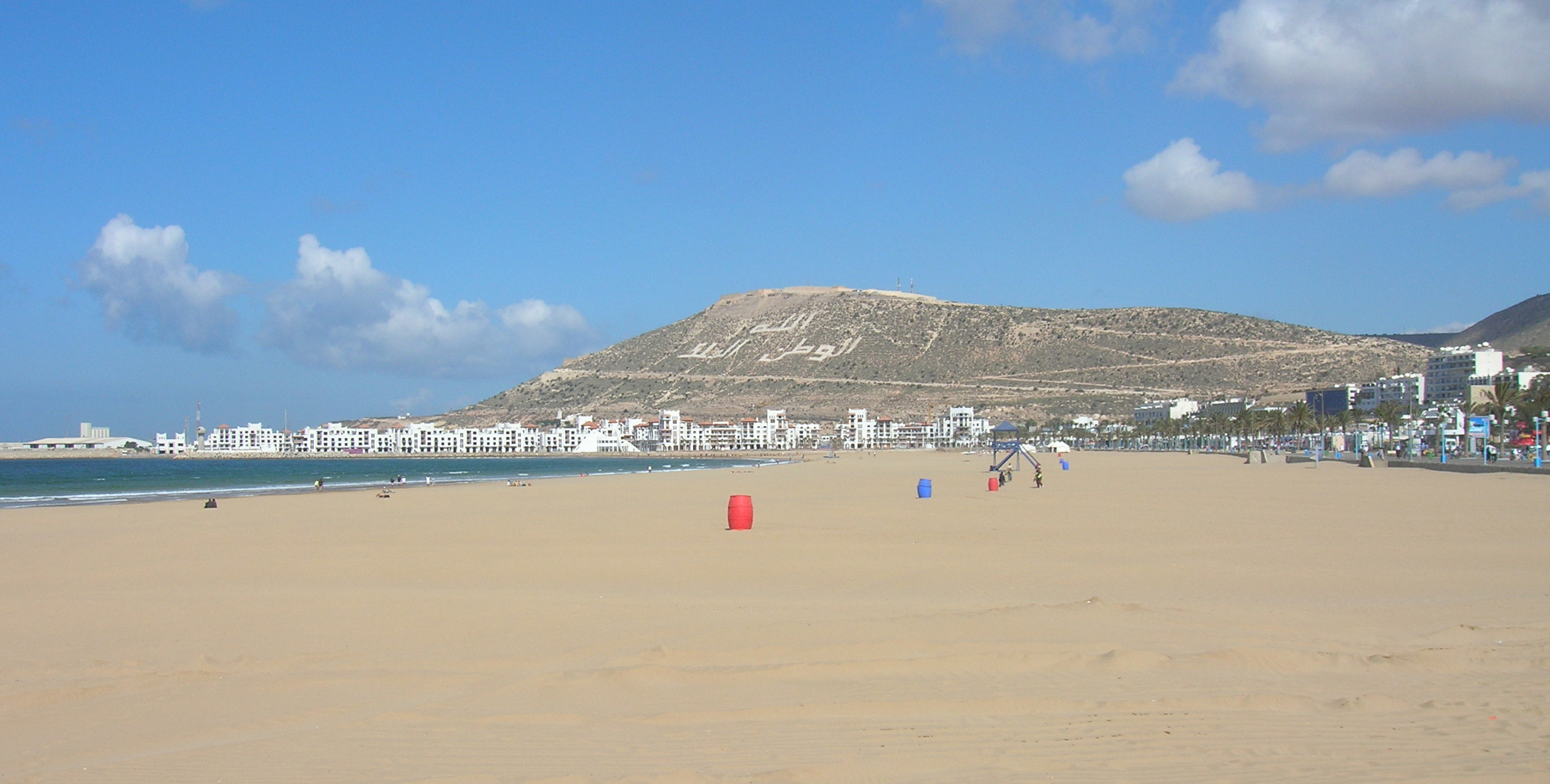 Kasbah in Agadir, Morocco.